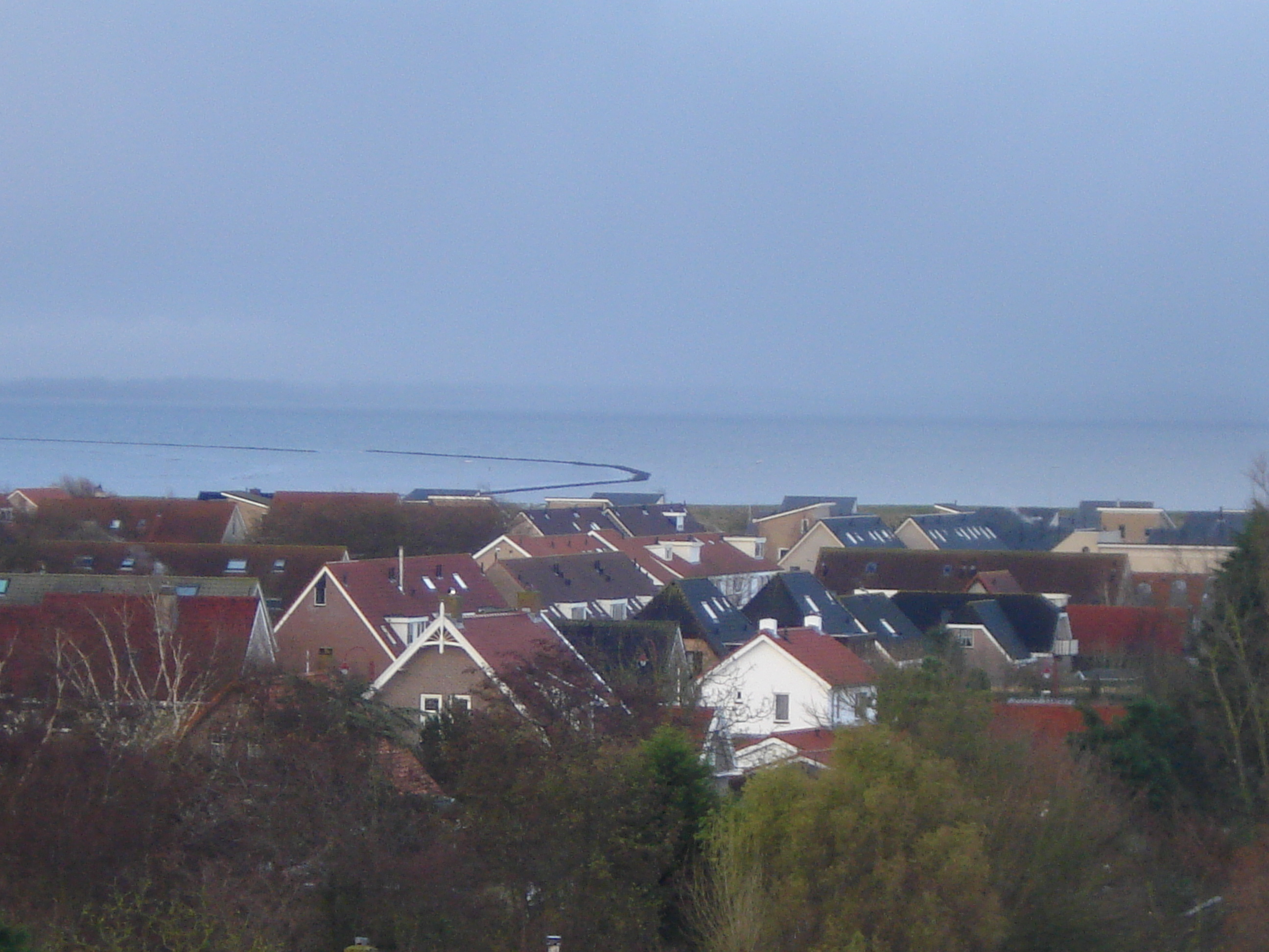 Ouddorp zuid